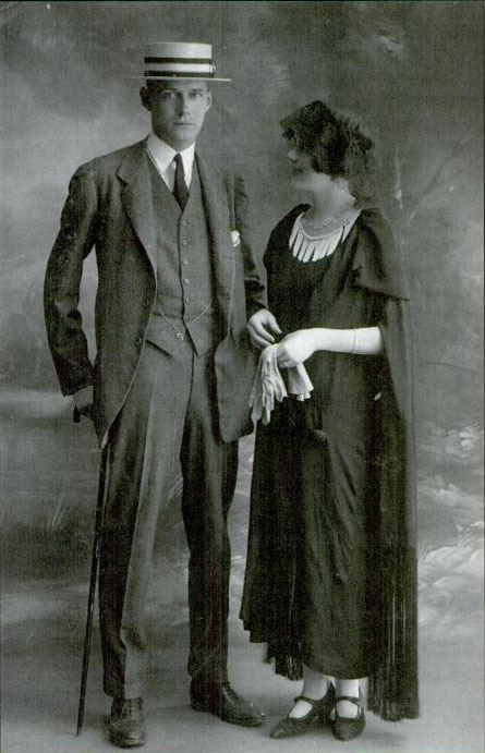 Harry and Polly Crosby shortly after their marriage in Paris during September 1922.